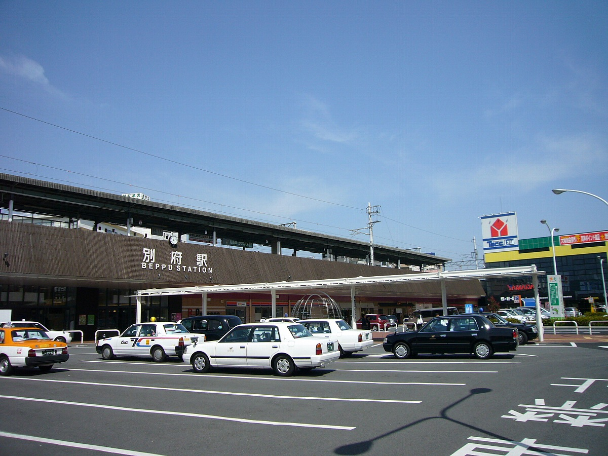 Beppu Station (別府駅)